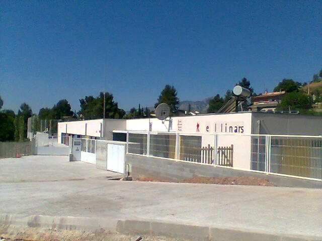 Front view of CEIP Rellinars